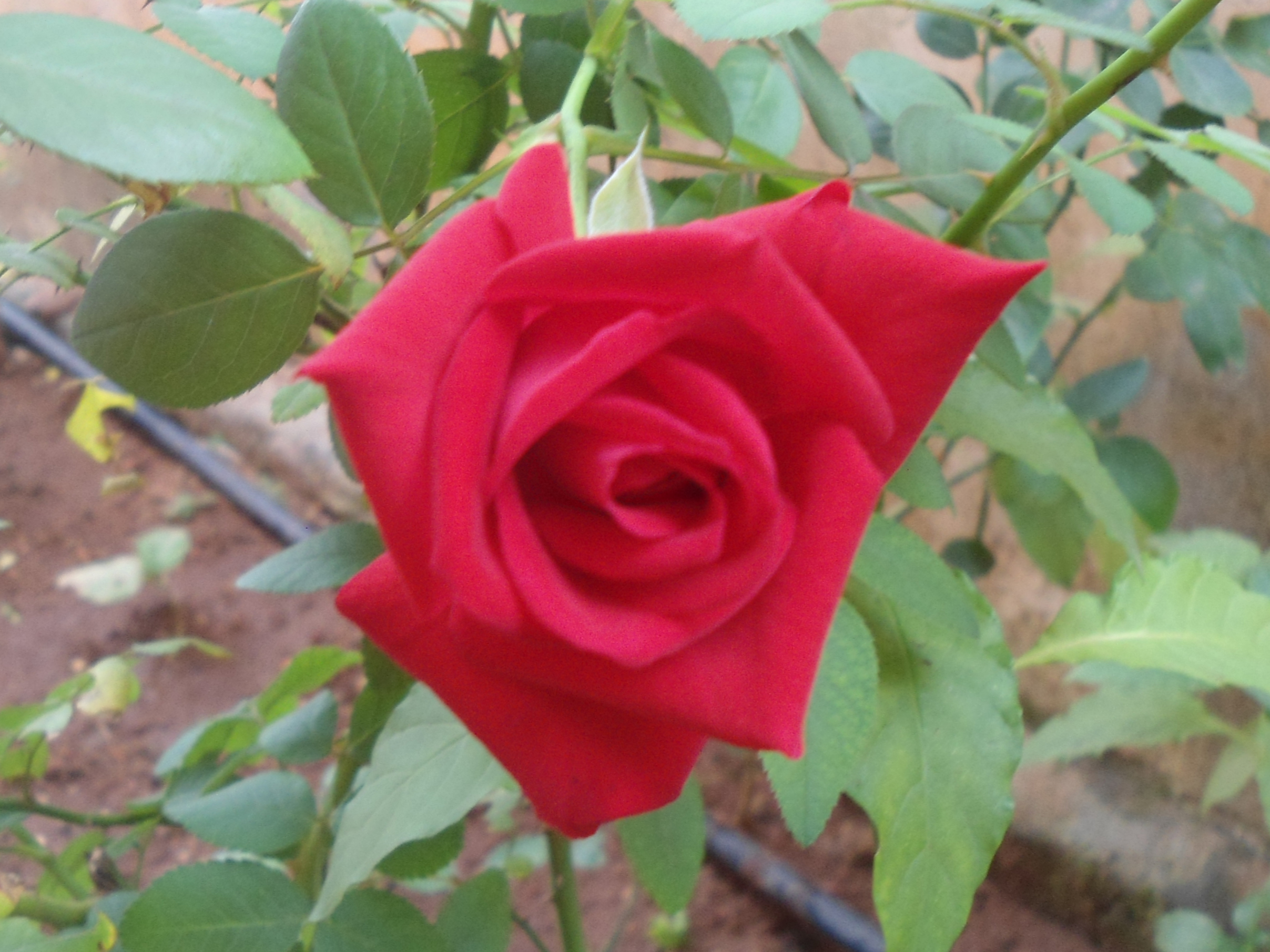 Rosa indica cultivator at Madhurawada, Visakhapatnam